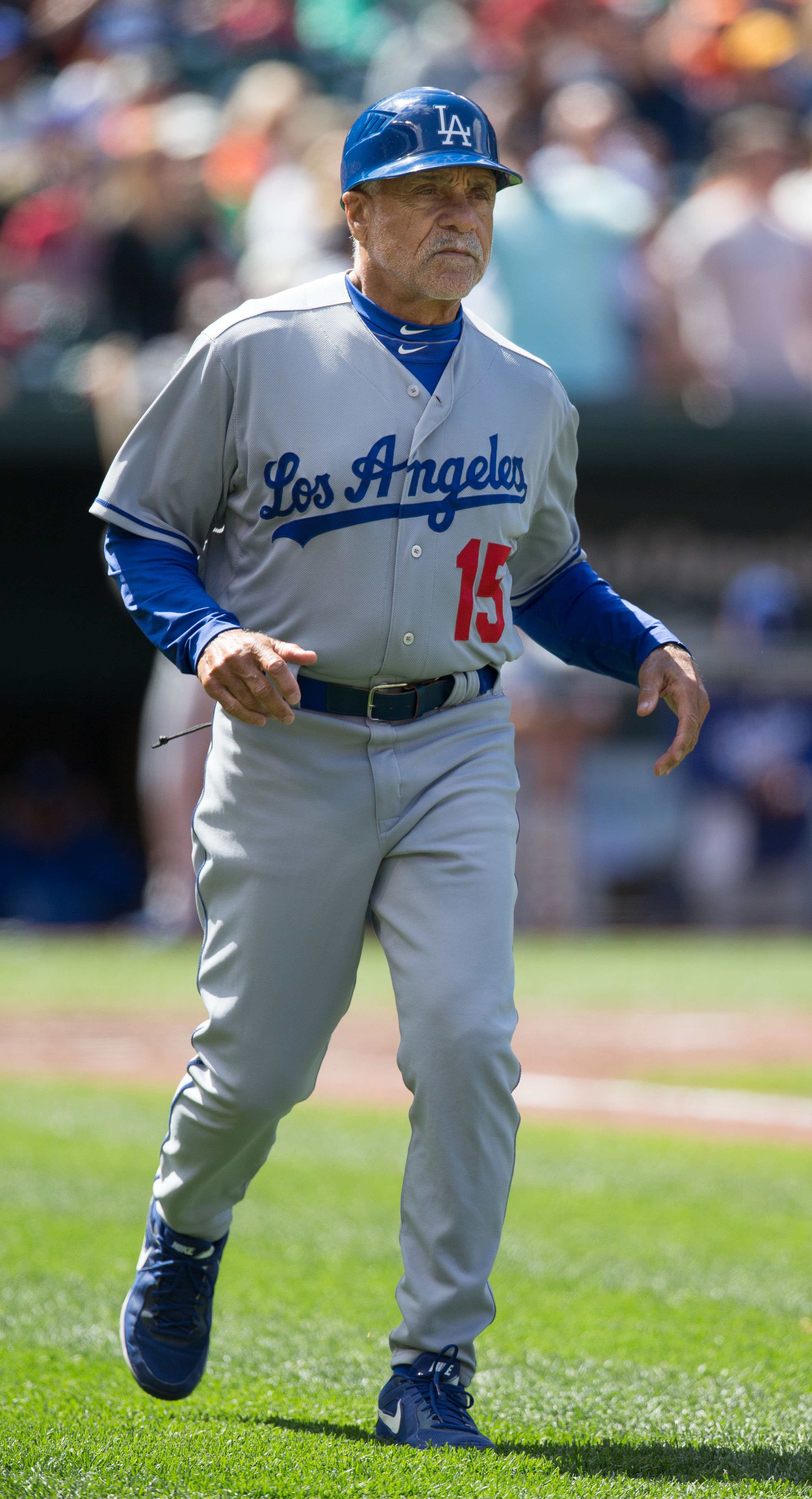 Los Angeles Dodgers coach Davey Lopes – Los Angeles Dodgers at Baltimore Orioles April 20, 2013